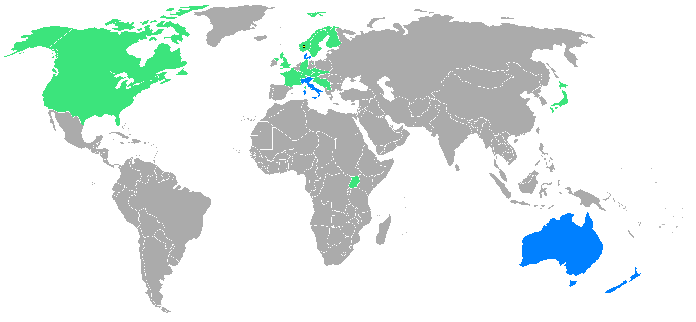 Countries which participated in the 1980 Winter Paralympics, derived from blank world map. Blue = Participating for the first time Green = Have previously participated. Yellow square is host city (Geilo).